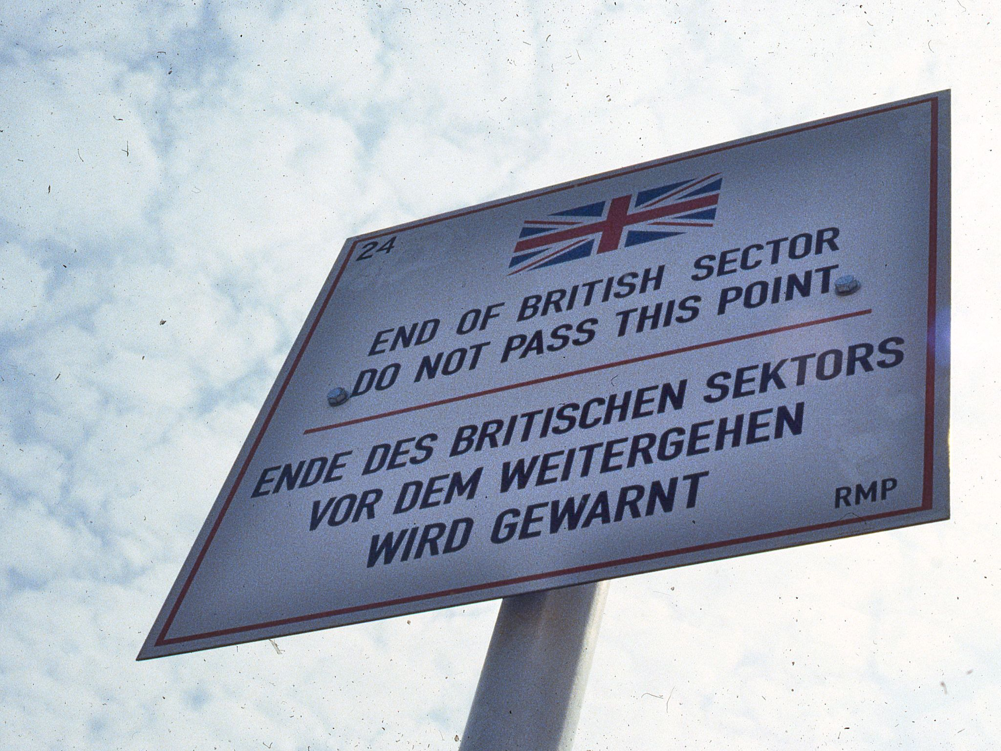 Road sign delimiting British zone of occupation in Berlin, 1984 Other information Photo by George Garrigues.